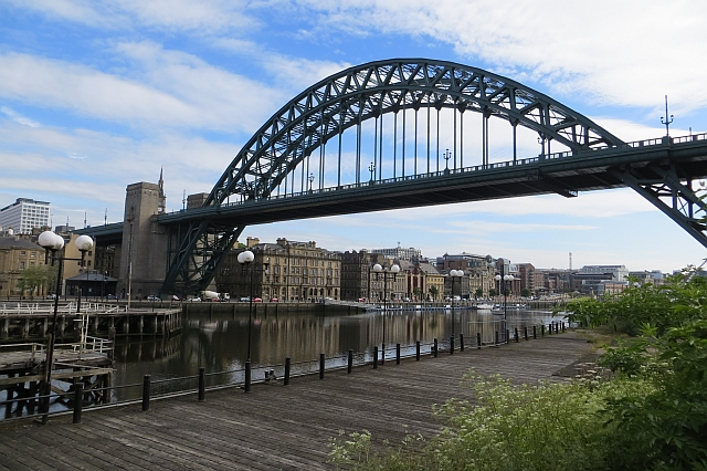 Tyne Bridge